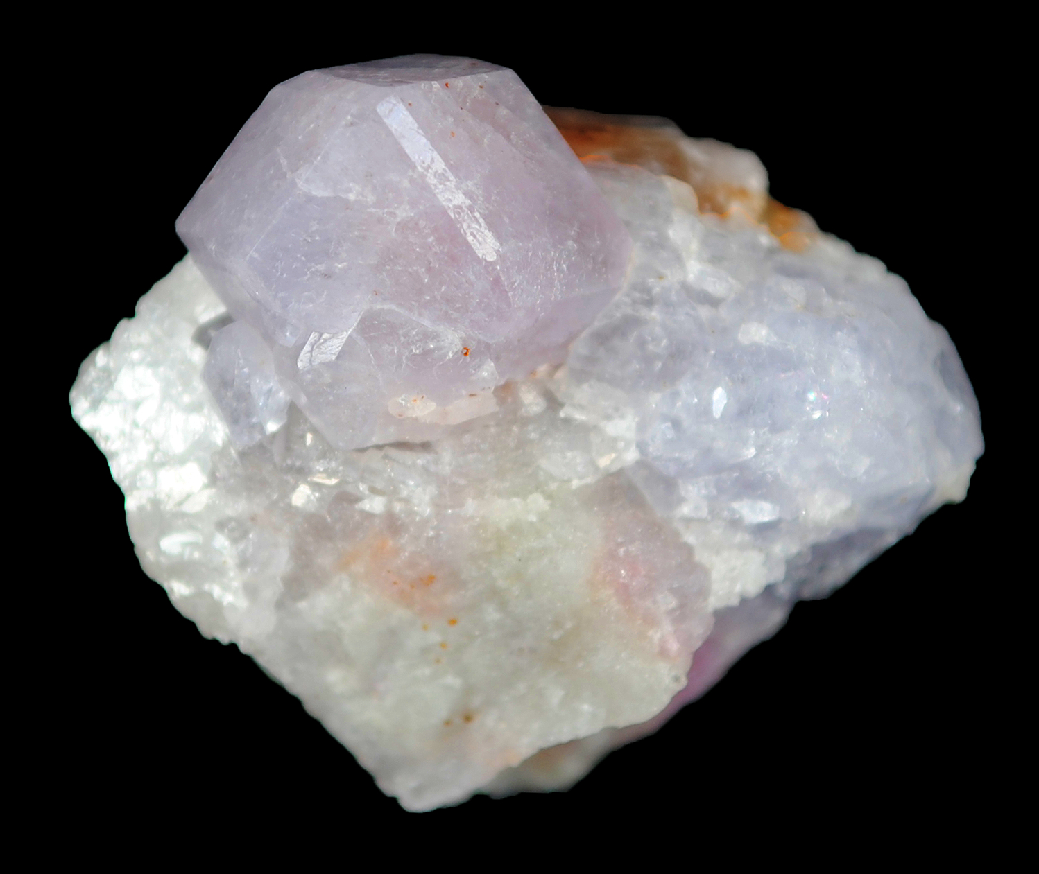 Sodalite Locality: Koksha Valley (Kokscha; Kokcha), Badakhshan (Badakshan; Badahsan) Province, Afghanistan (Locality at ) Size: thumbnail, 2.8 x 2.1 x 1.3 cm Hackmanite (variety of Sodalite) (fluor) A remarkable, sharp, isolated Hackmanite (Sodalite) crystal, the quality of which I have not often seen. It is actually complete all around, nicely perched and exposed so the backside is revealed as well. The light lavender-colored crystal is 1.3 cm across, gemmy to translucent, very lustrous, and sharp. This well formed dodecahedron has beveled edges which add greatly to the interest, as does a lovely rose fluorescence. An excellent thumbnail example.